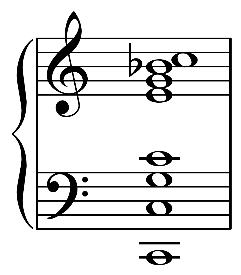 First eight harmonics, vertically.